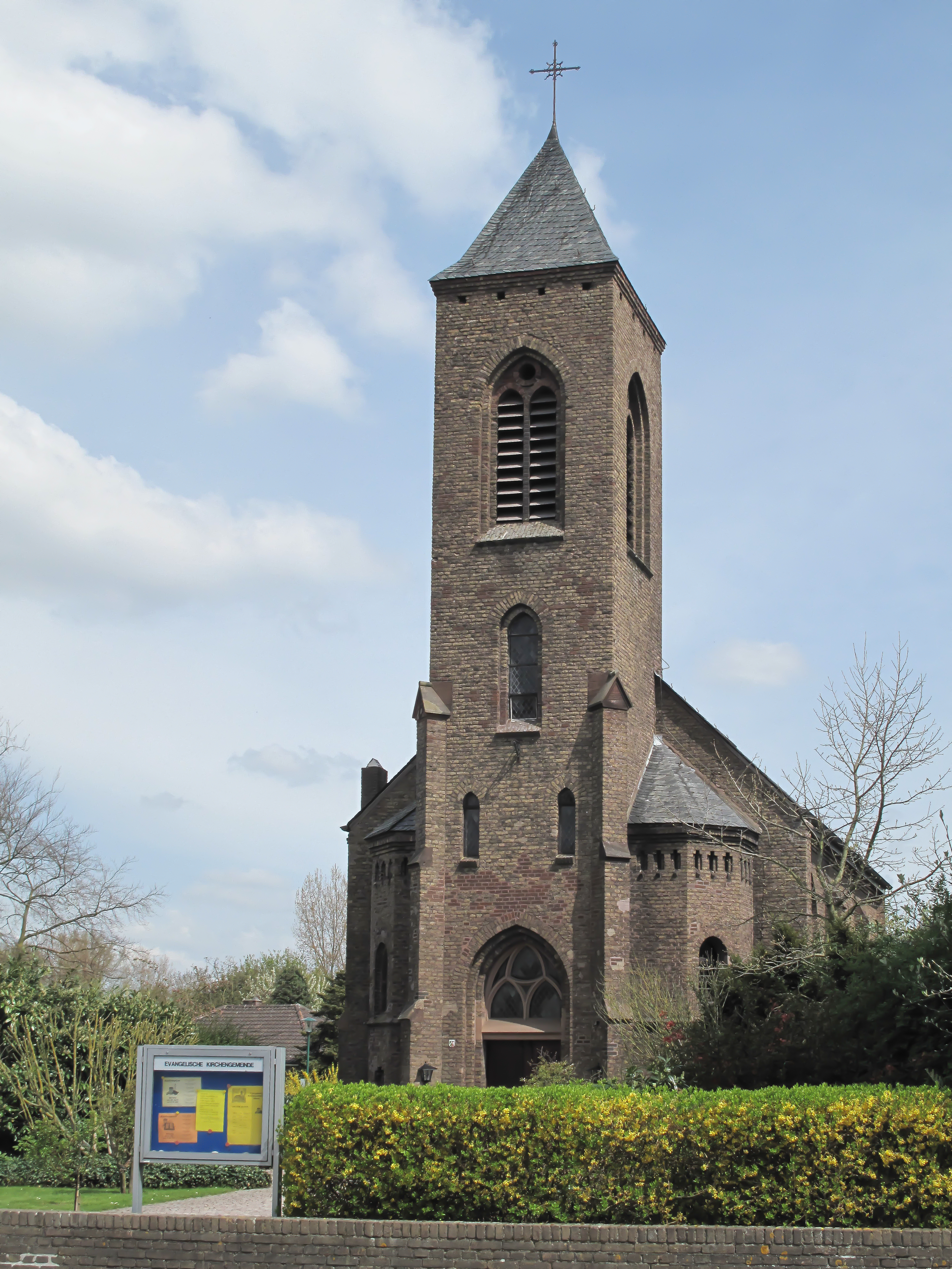 Weeze, reformed church